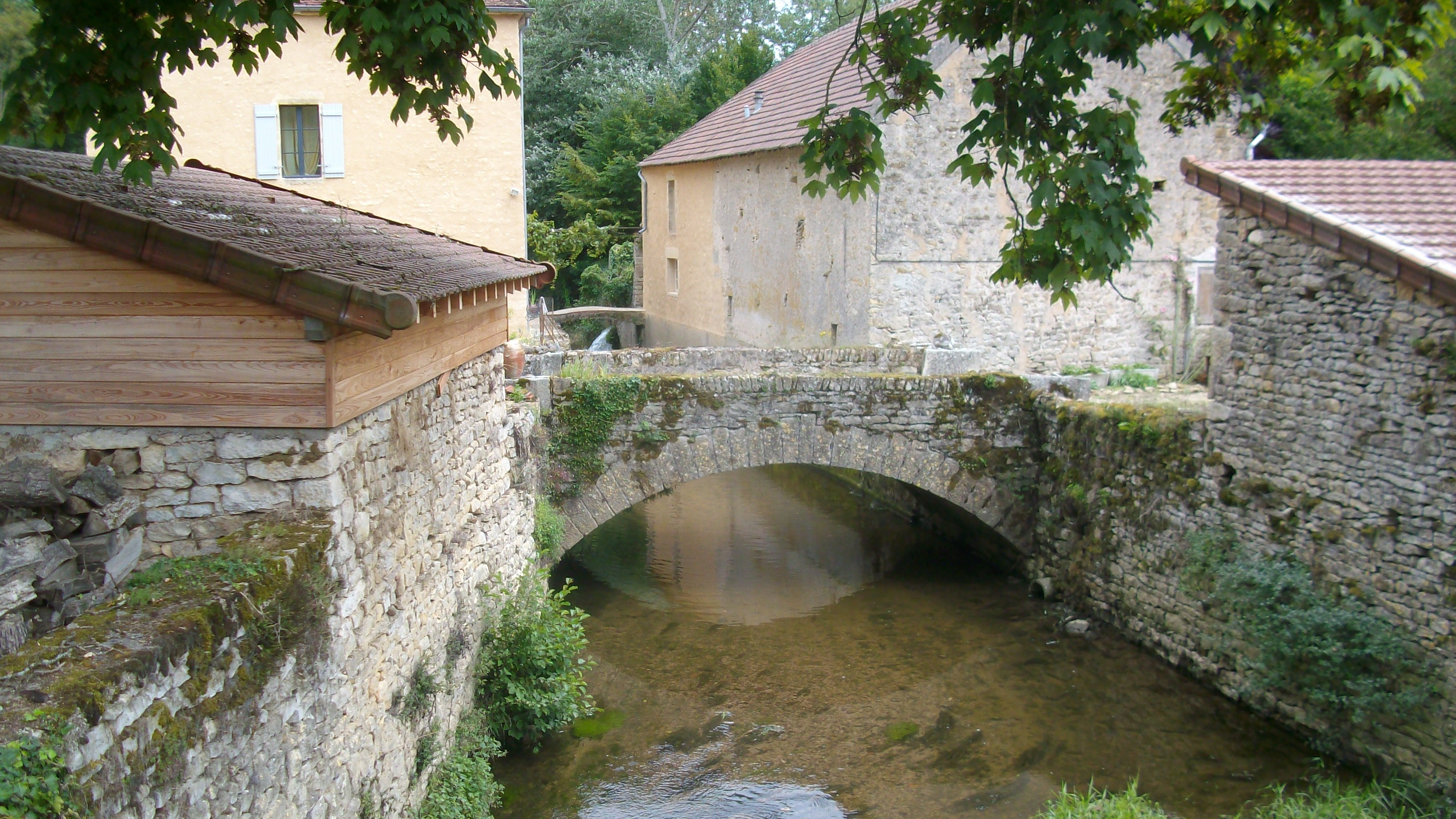 Givry, Yonne, Bourgogne, France. Un bras du Cousin coulant à Givry, vu vers l'est et vers l'avalmont depuis le pont de la D71. Ce bras est celui le plus au sud et le plus près du village, qui se trouve sur la droite.